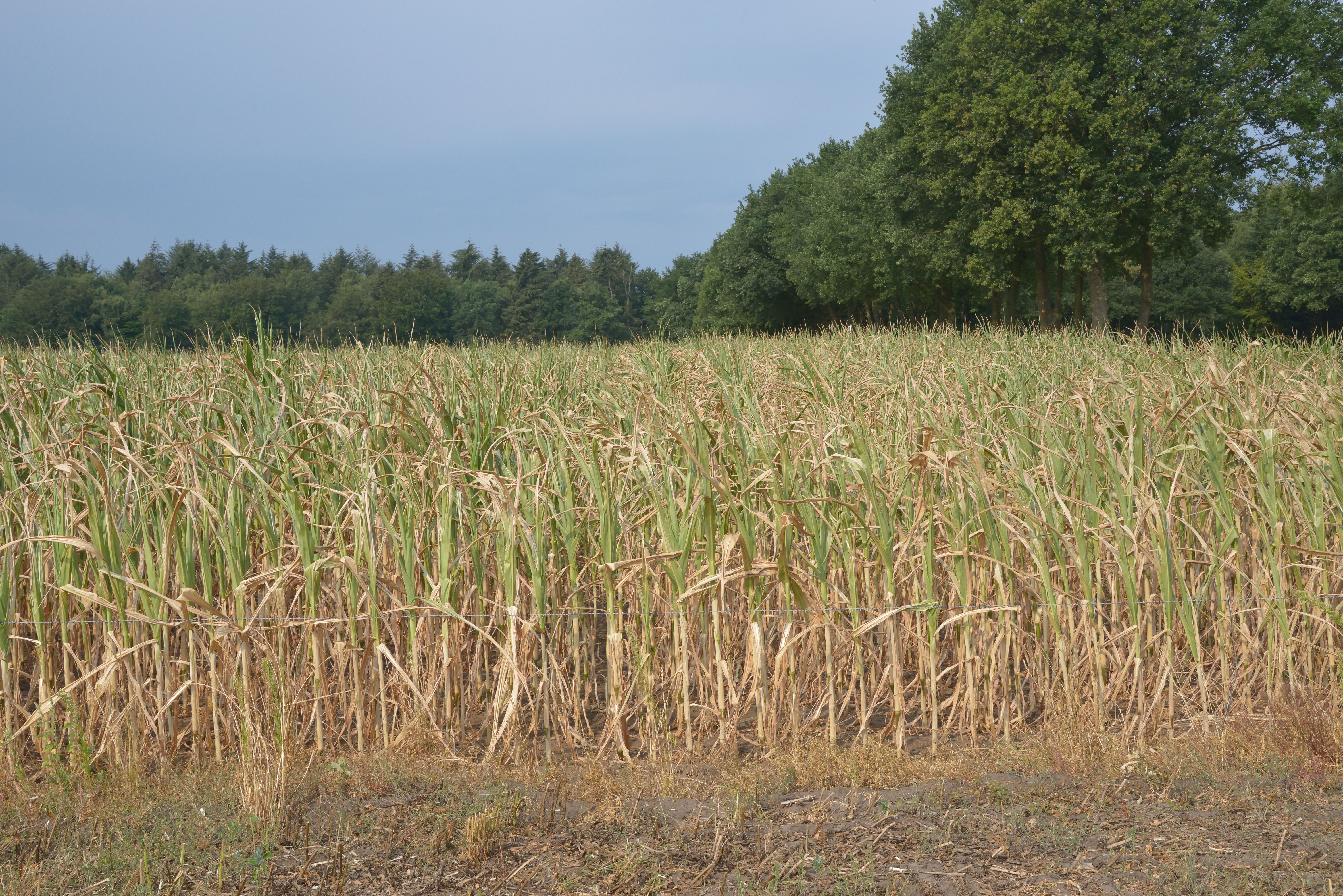 Zea mays drought